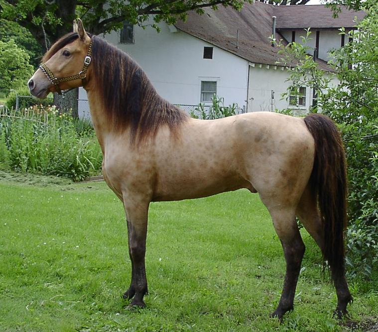 Amber Champange Stallion